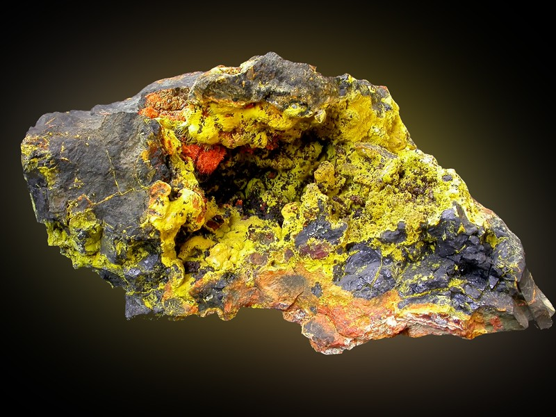 Schoepite, Curite, Uraninite Locality: Shinkolobwe Mine (Kasolo Mine), Shinkolobwe, Central area, Katanga Copper Crescent, Katanga (Shaba), Democratic Republic of Congo (Zaïre) (Locality at ) Size: 14.0 x 10.0 x 7.2 cm. A very large and colourful specimen from the Shinkolobwe mine. The yellow mineral used to be called Ianthinite but since the discovery in the 1950’s has turned into Epiianthinite; which is, in fact, now realized to be the same species as previously known Schoepite. It is a sort of pseudomorph because the crystal habit of the Ianthinite can still be seen (the change occurred after the specimen was recovered, post-mining). Associated is also a 10 mm large cluster of red Curite crystals nicely nestled in the yellow Epiianthinite. It is beautiful. A very heavy specimen due to the matrix consisting of pure Uraninite. Shinkolobwe is the type locality for the Schoepite and the Curite, a mine closed since decades. It used to be on display at the Carnegie Museum, just because of the gorgeous colour mix. This specimen was removed from the display in the early 1990's because it was considered "too hot" and sold to now-deceased dealer Gilbert Gauthier. Before it went to Carnegie, it came from the famous dealer Dr. F. Krantz, in Bonn. Type Locality for both species.